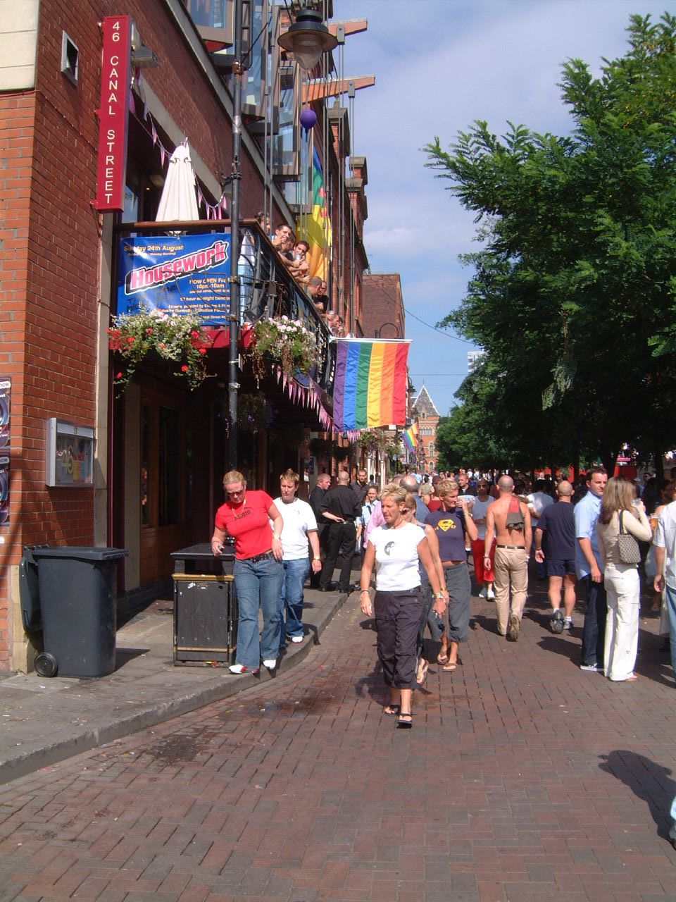 Canal Street, Manchester, United Kingdom